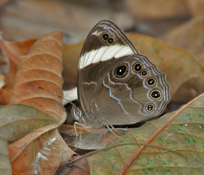 Banded Treebrown Lethe confusa at Samsing in Darjeeling district of West Bengal, India.